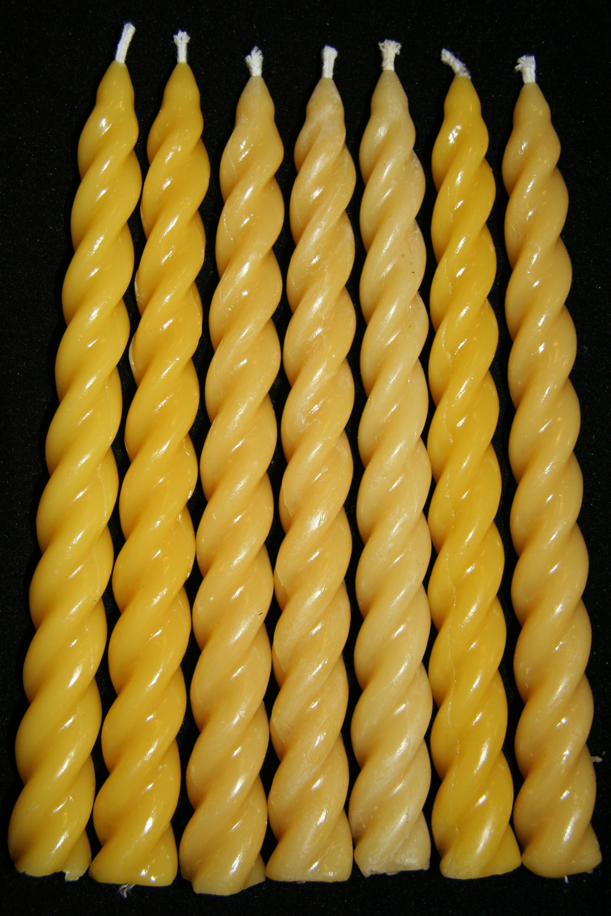 Seven spiral-shaped beeswax candles